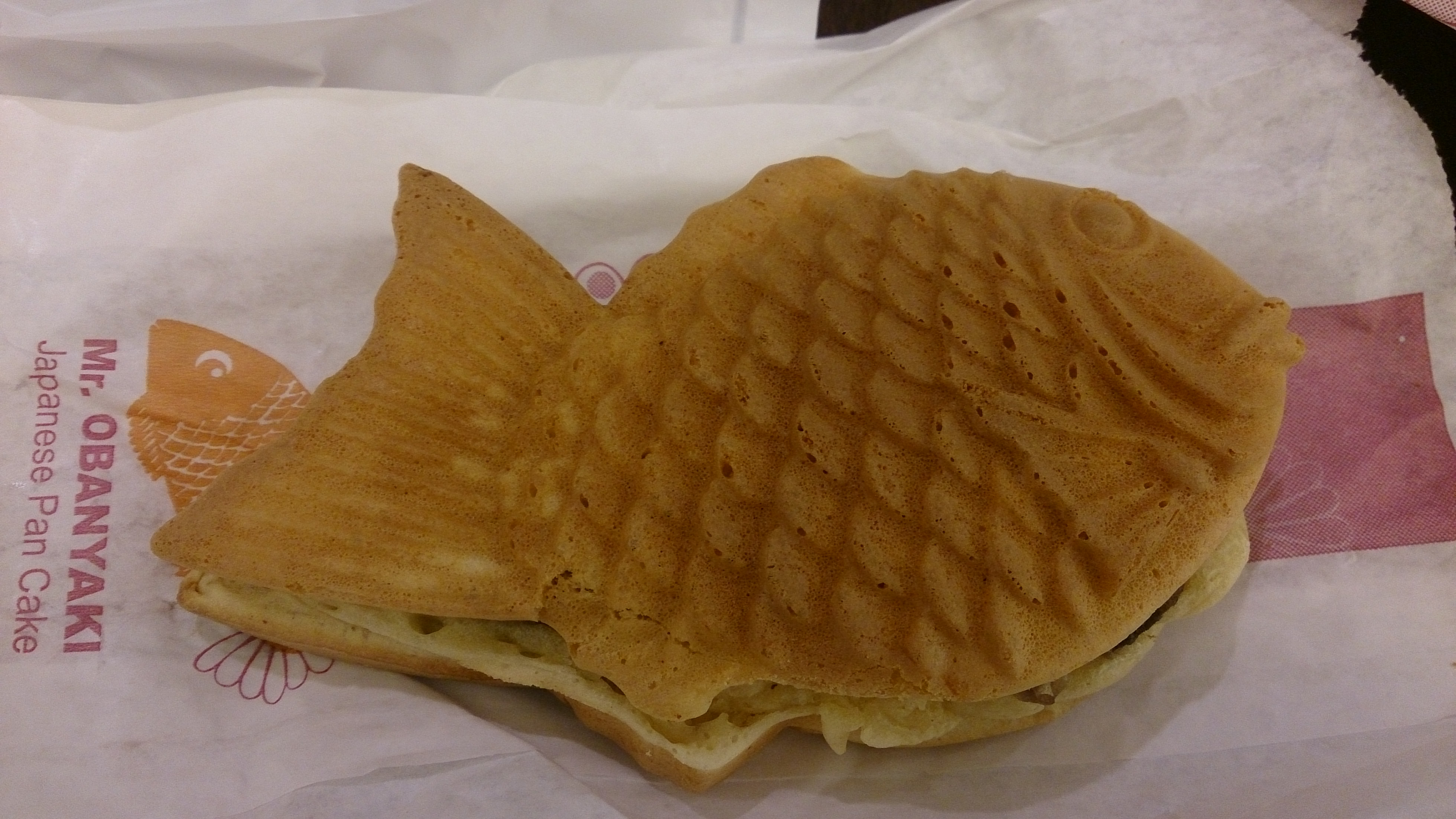 filling: red bean paste